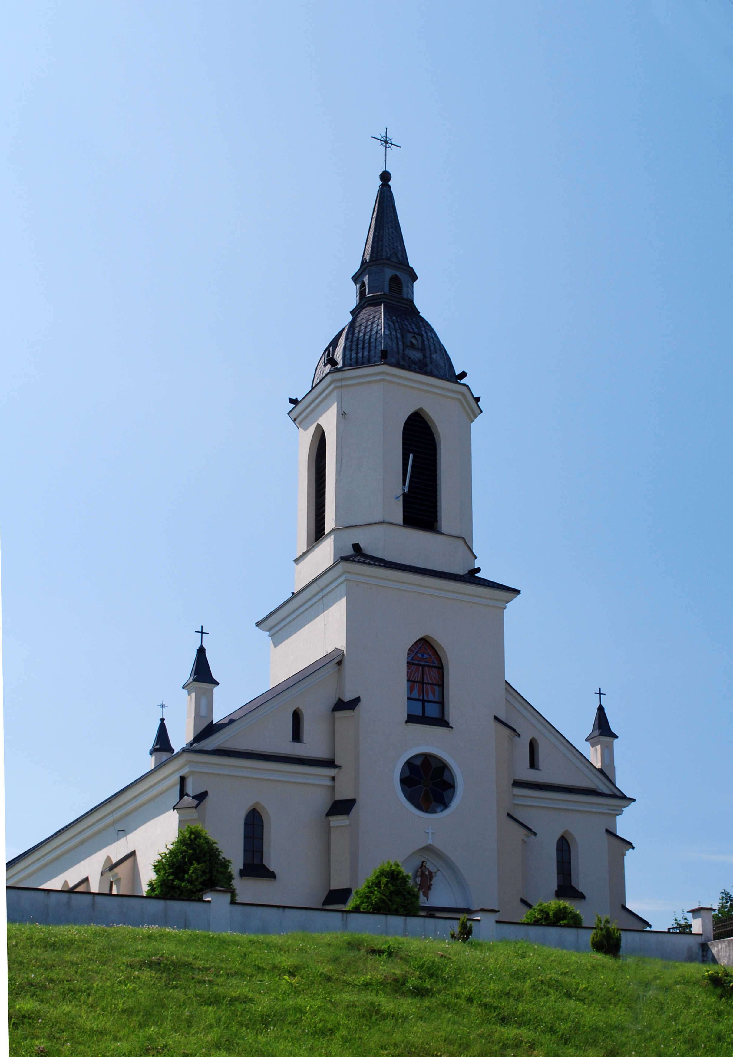 This photo from Podlaskie Voievodeship was taken during Polish Wikiexpedition 2009 set up by Wikimedia Polska Association. The making of this document was supported by Wikimedia Polska. Kościół katolicki w Szudziałowie